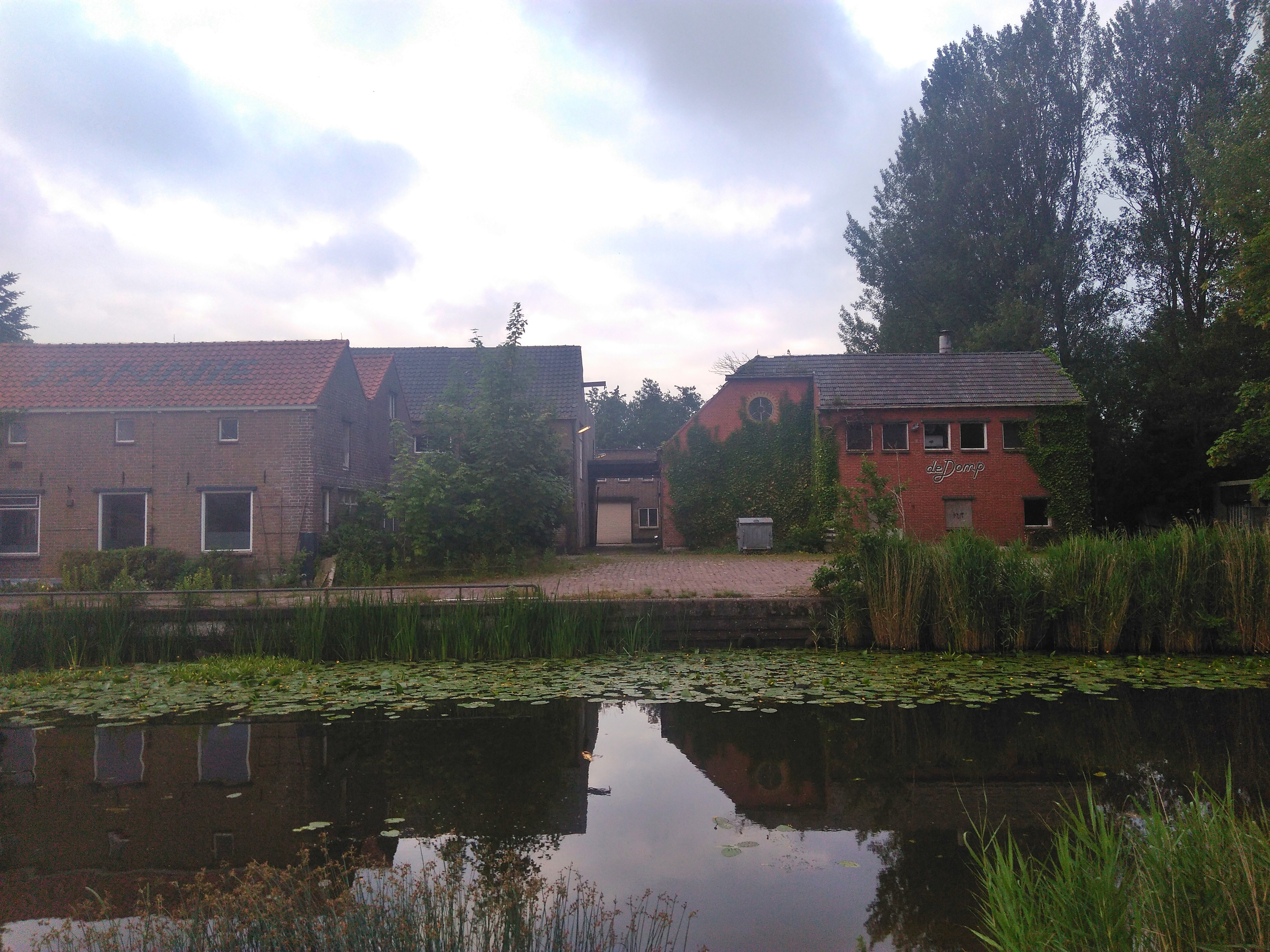 Dairy factory, Tzum